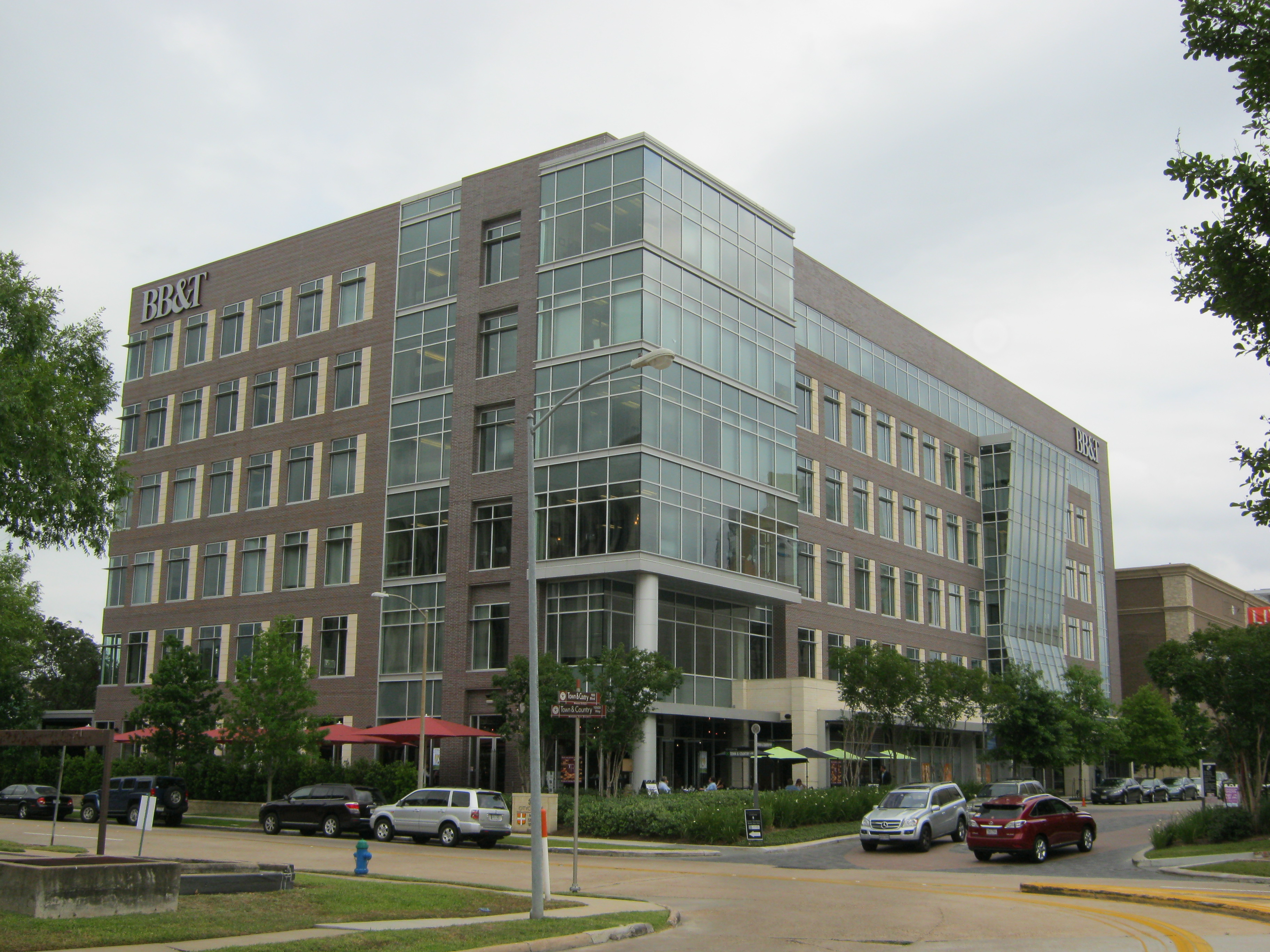 818 Town and Country Boulevard